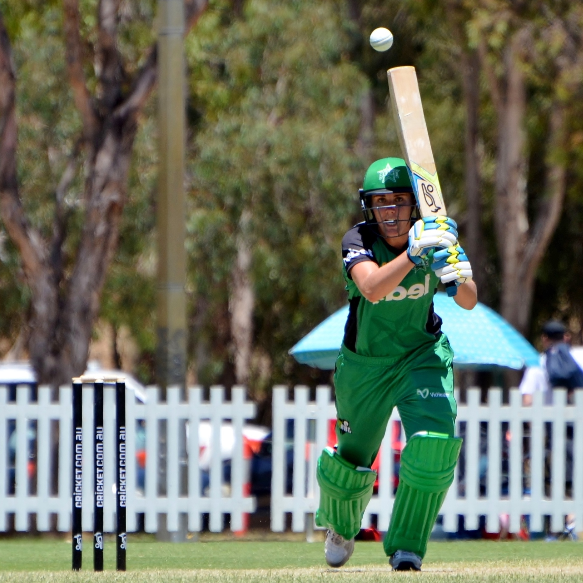 Natalie Sciver on her way to top scoring with 31 for Melbourne Stars (WBBL) against Perth Scorchers (WBBL) at Lilac Hill Park, Perth, Australia.